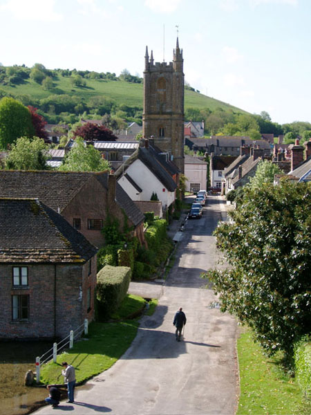 Abbey Street, Cerne Abbas Taken from the top floor of Cerne Abbey, and showing Black Hill (grid ref ST6600) in the background